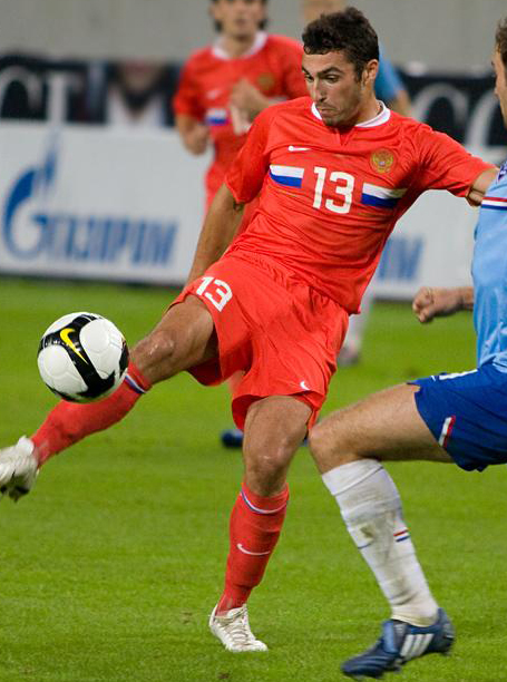 Nikita Bazhenov with Russia national football team